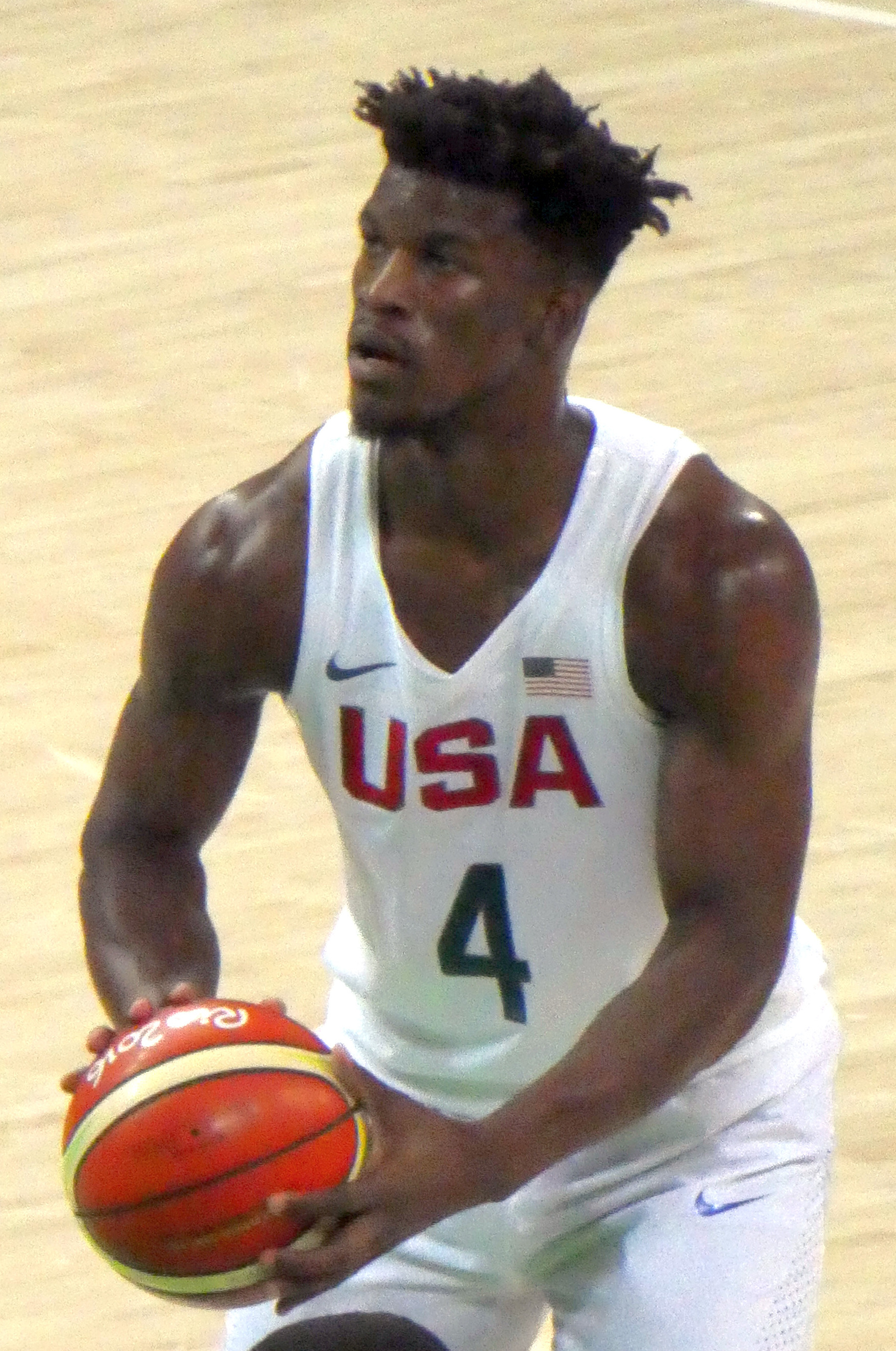 Jimmy Buttler taking a free-throw for USA Olympic basketball team in a match against Serbia